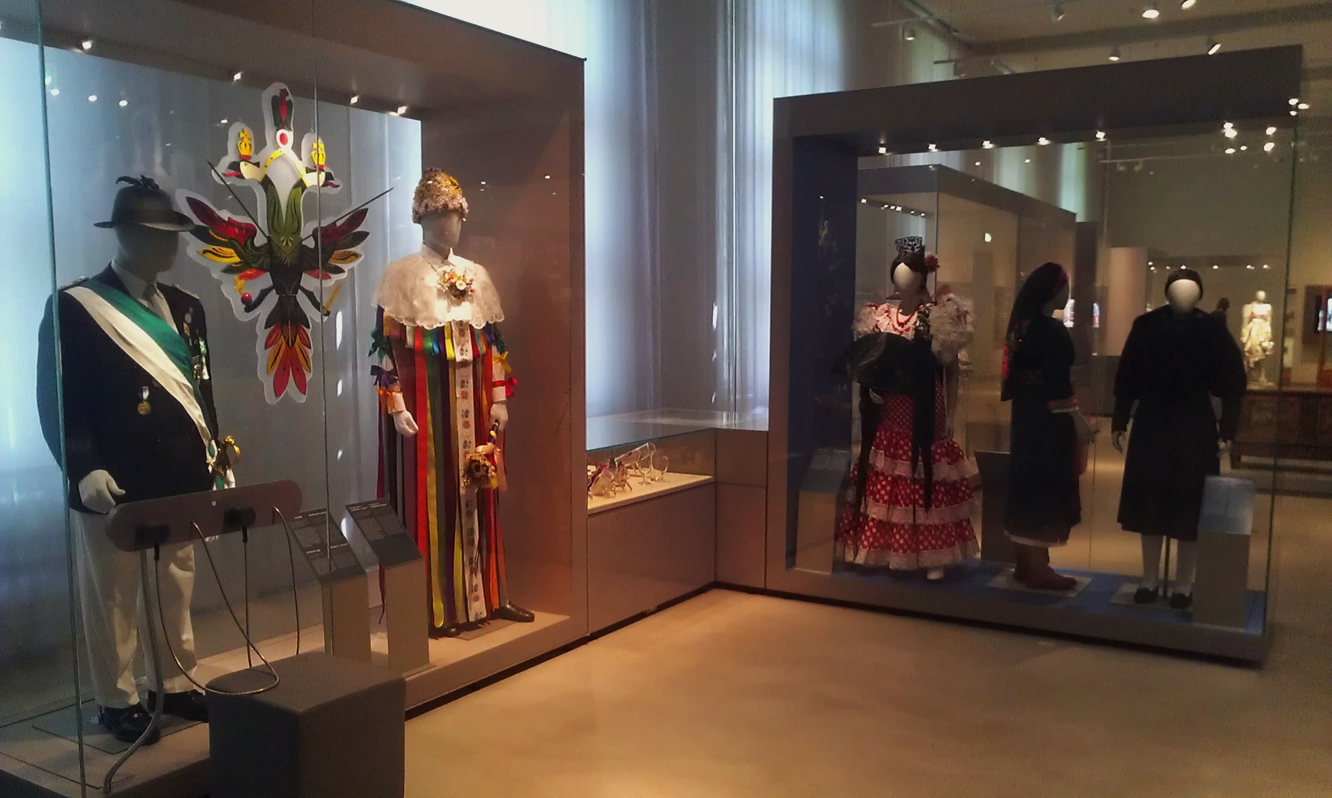 The interior of an exhibition at the Museum Europäischer Kulturen, part of the Dahlem Museum in Dahlem, Berlin.